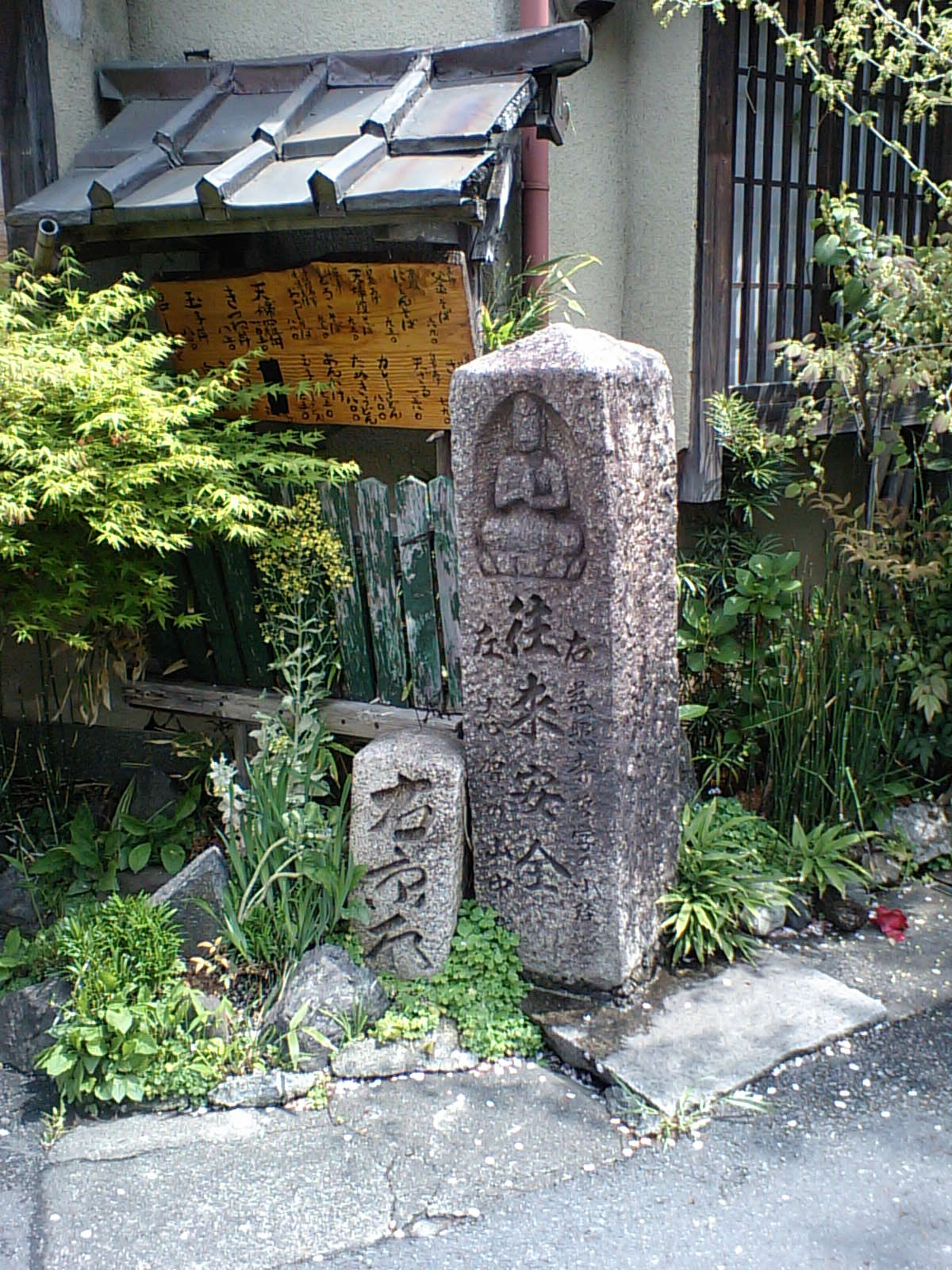 signpost in Kyoto Kitashirakawa Higashikubota-chou(Near Ginkaku-ji) "Wishes safe traffic(or travel).","Left to Shigagoe michi (to Otsu, Shiga)","Right to Jisho-ji (Ginkaku-ji),Philosopher's Walk"